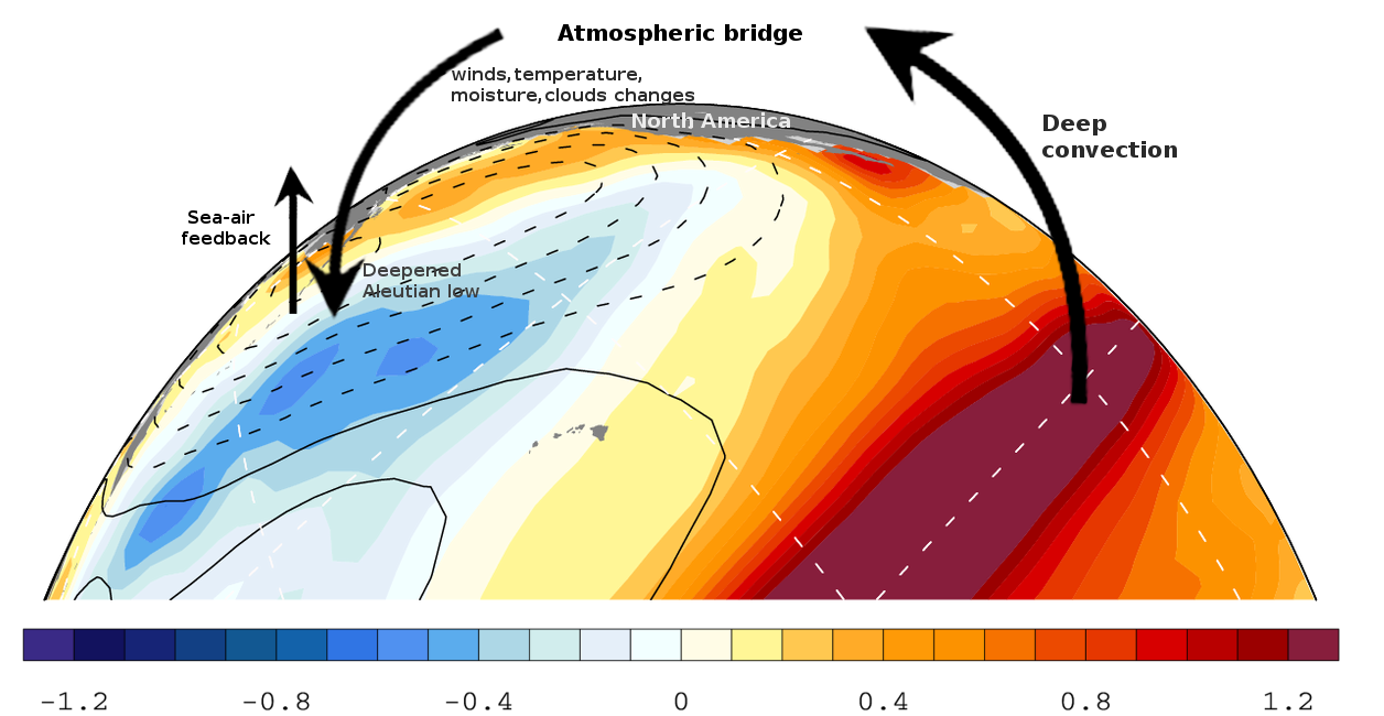 Boreal winter sea surface temperature and sea level pressure(contours, dashed line are indicative of negative anomalies) composites of nine el nino events minus nine la nina events as in Hoerling et al. 1997. Data source: ersstv3b: ncep/ncar reanalisys slp